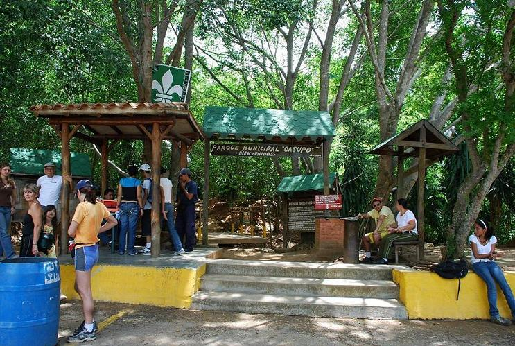 Entry to Casupo, Valencia, Venezuela